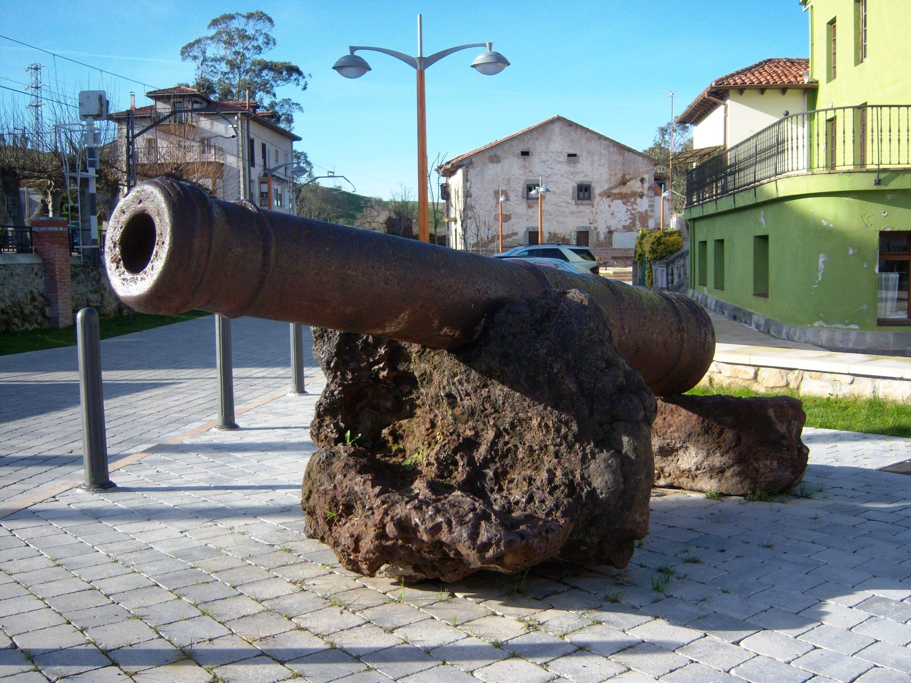 Old cannon in the park Carlos III at La Cavada (Cantabria, Spain), fused in the Royal Artillery Factory, resting on slag.